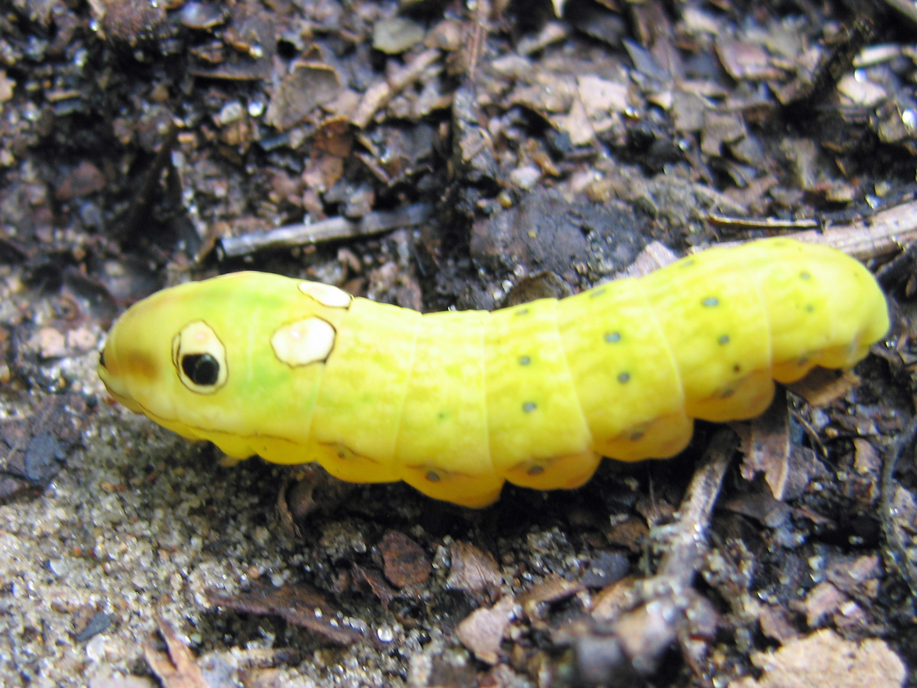 Spicebush Swallowtail, Papilio troilus (side)